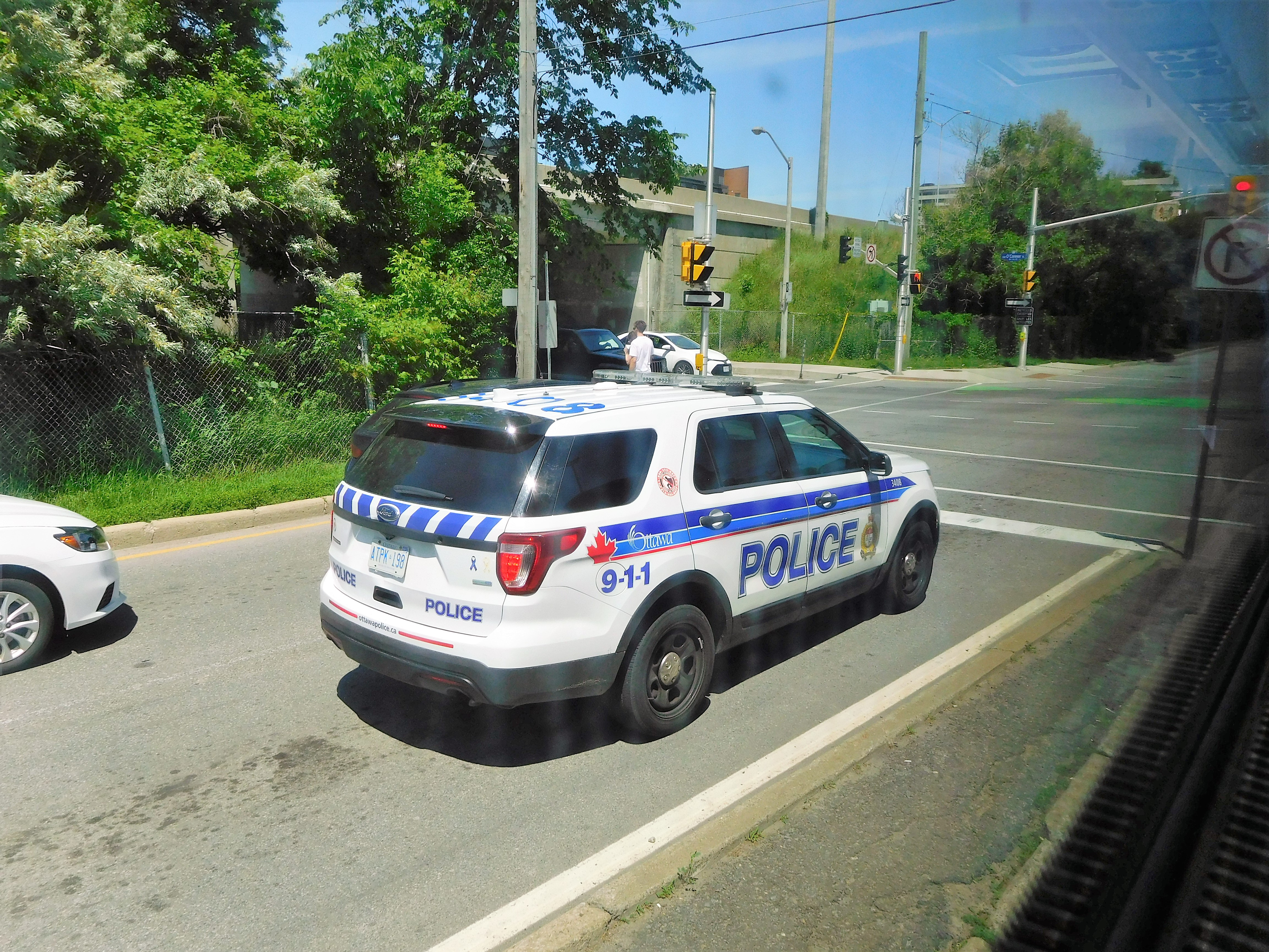 Vehicle of the Ottawa Police Service Isabella Street (at O'Connor)